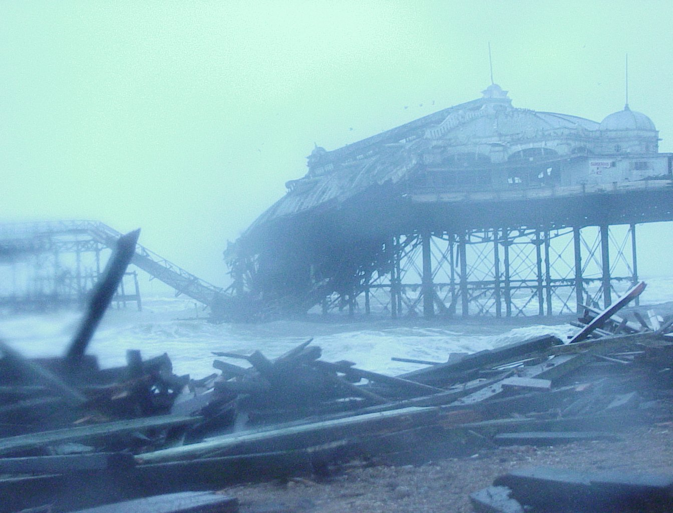 Remains of the West Pier, Brighton. Photographed on 3rd March 2003 (not 2007 as originally stated).